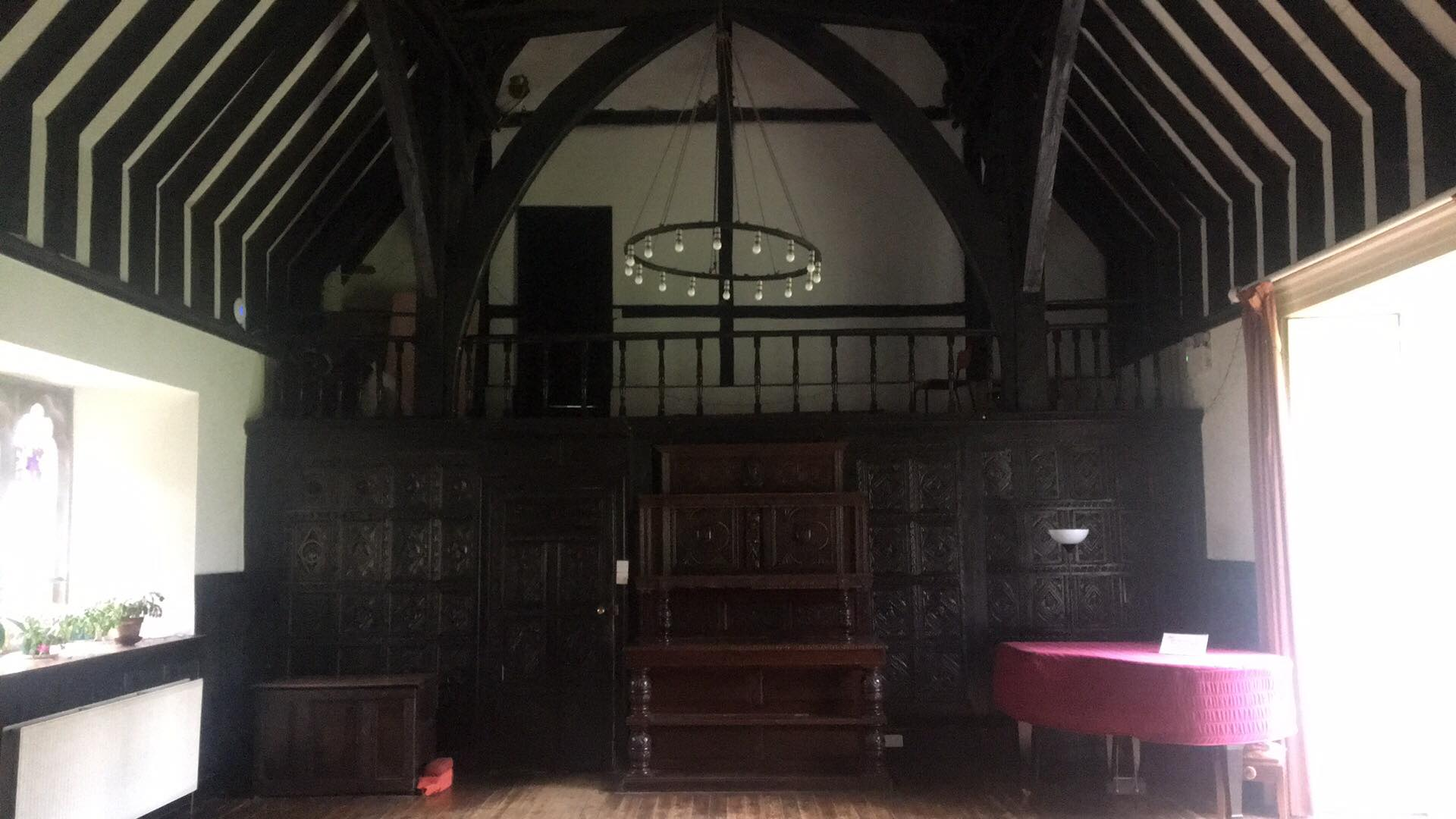 The Abbey, Sutton Courtenay, Oxfordshire, England